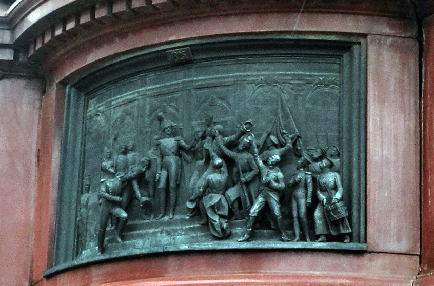 Восста́ние декабристов / Vosstániye dekabristov / Dekabrist Uprising 1825